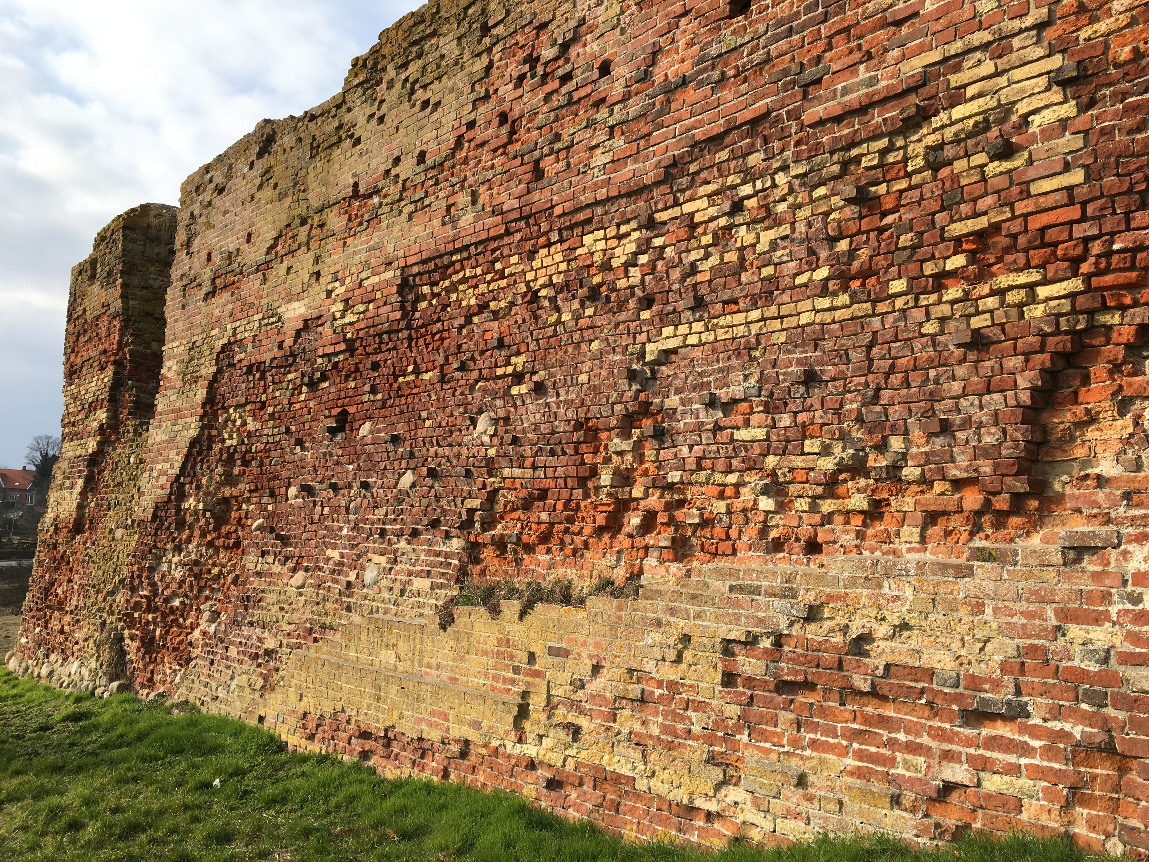 Walls on Vordingborg Castle